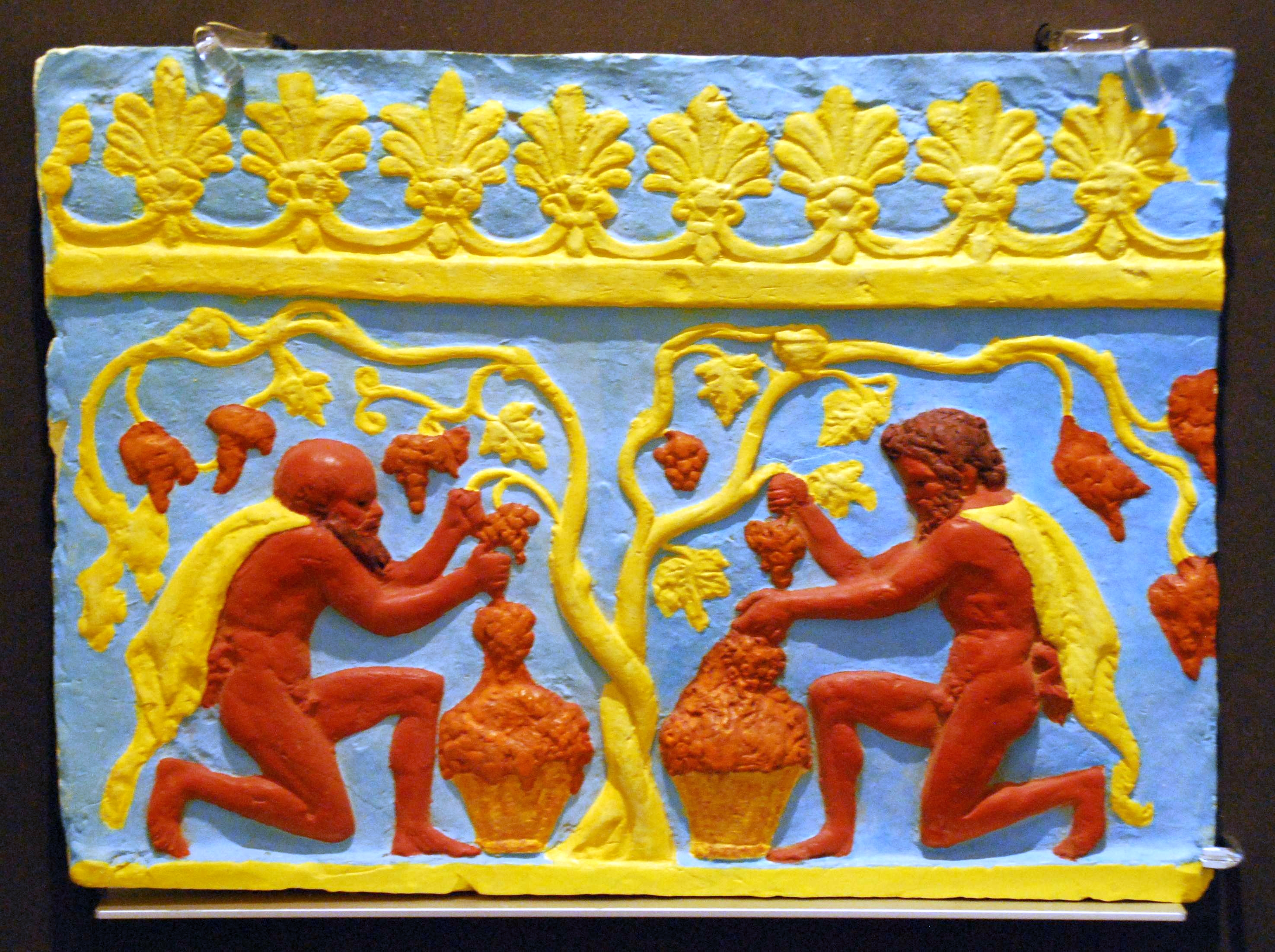 Campana plaque in the Museum August Kestner in Hannover (Inv.-Nr. 1338): Satyrs; Clay; polychrome reconstruction